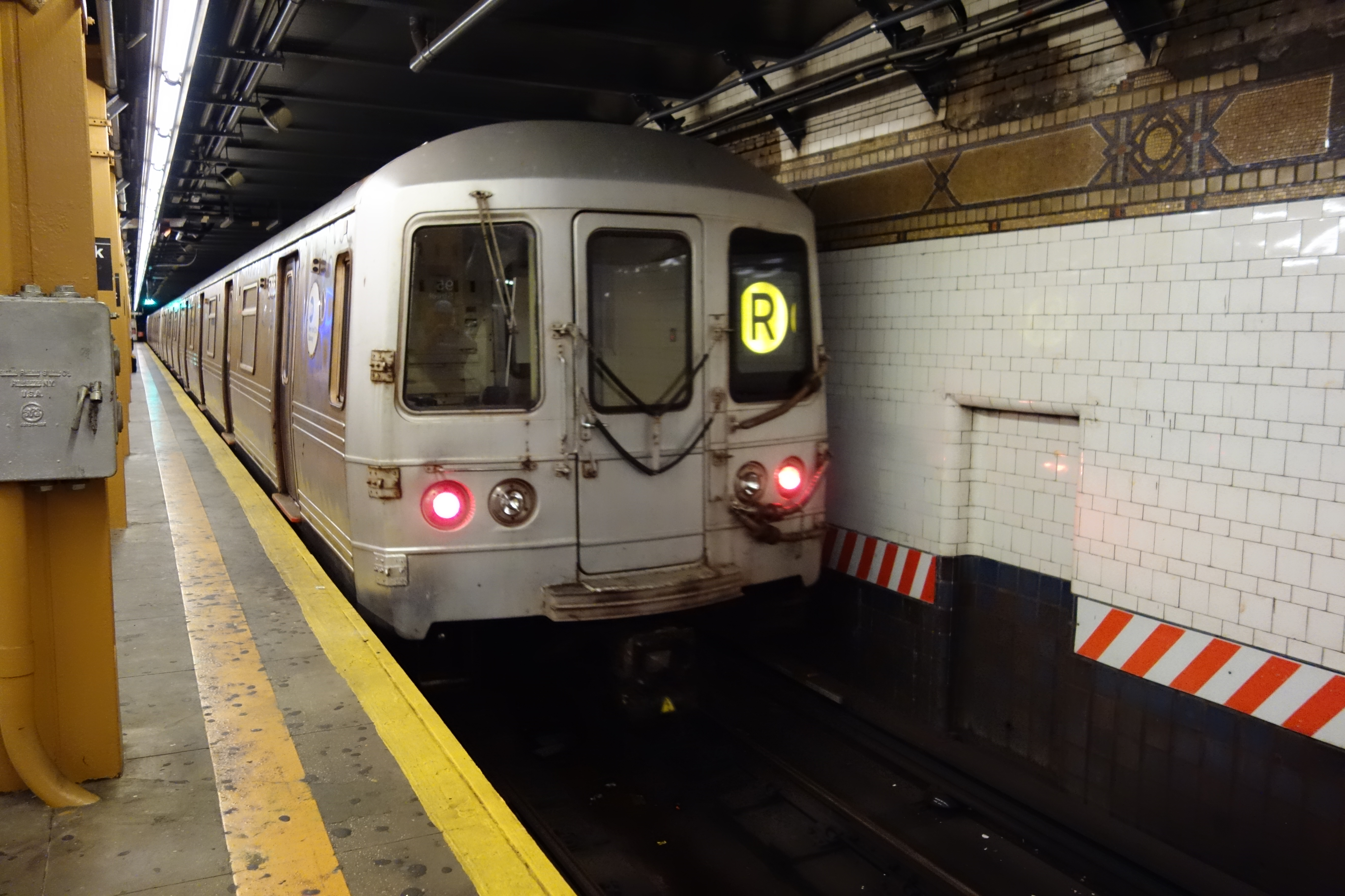 A Forest Hills–71st Avenue-bound R train leaving the Bay Ridge–95th Street BMT Fourth Avenue Line station in Bay Ridge / Fort Hamilton, Brooklyn.